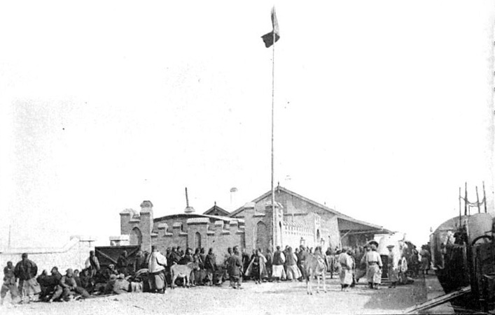 Image from La Chine à terre et en ballon.